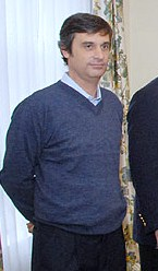 Alvaro García, Uruguayan Minister of Finance.